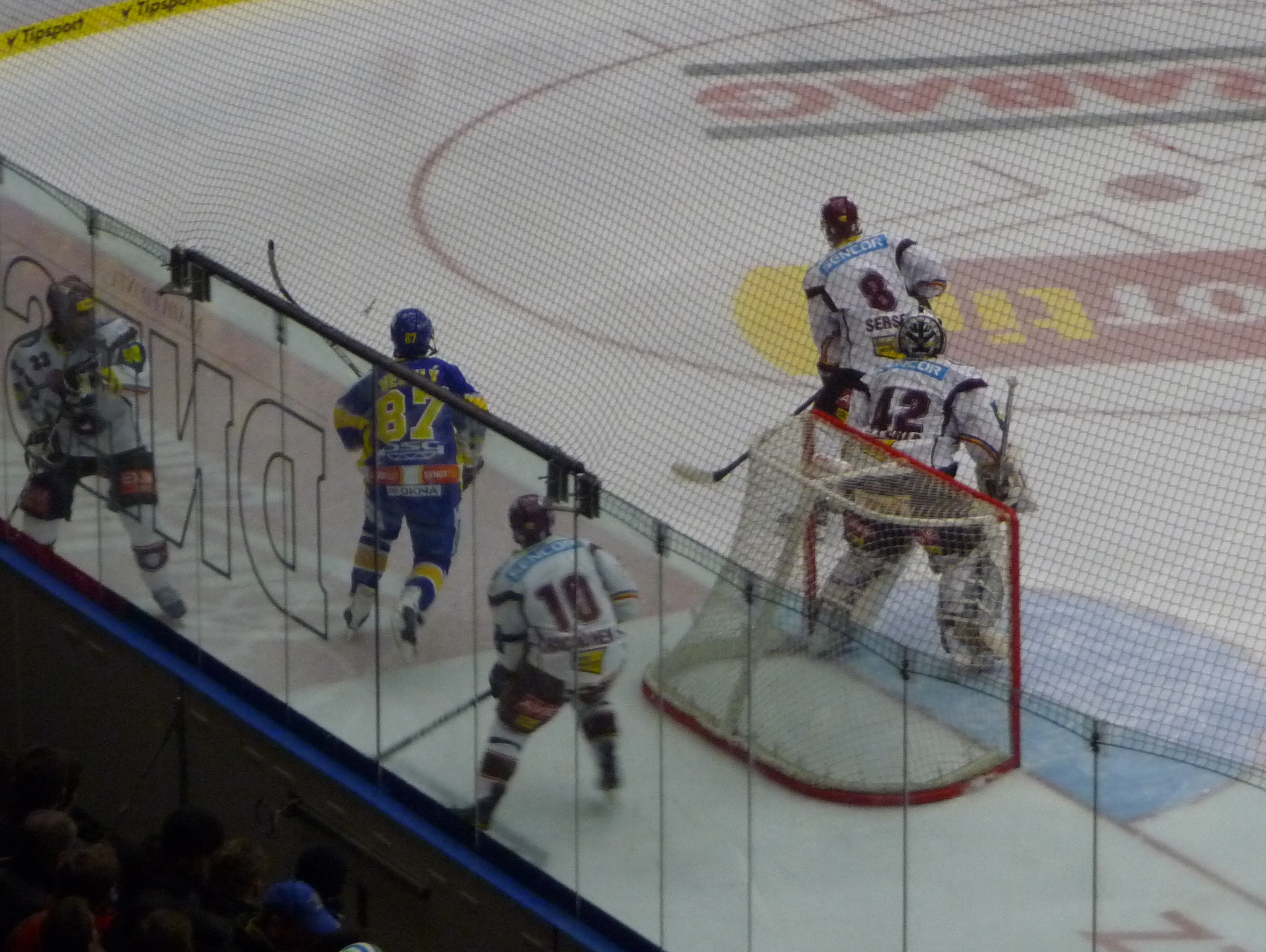 PSG Zlín v HC Sparta Praha -10-5-3-2◄►+2+3+5+10